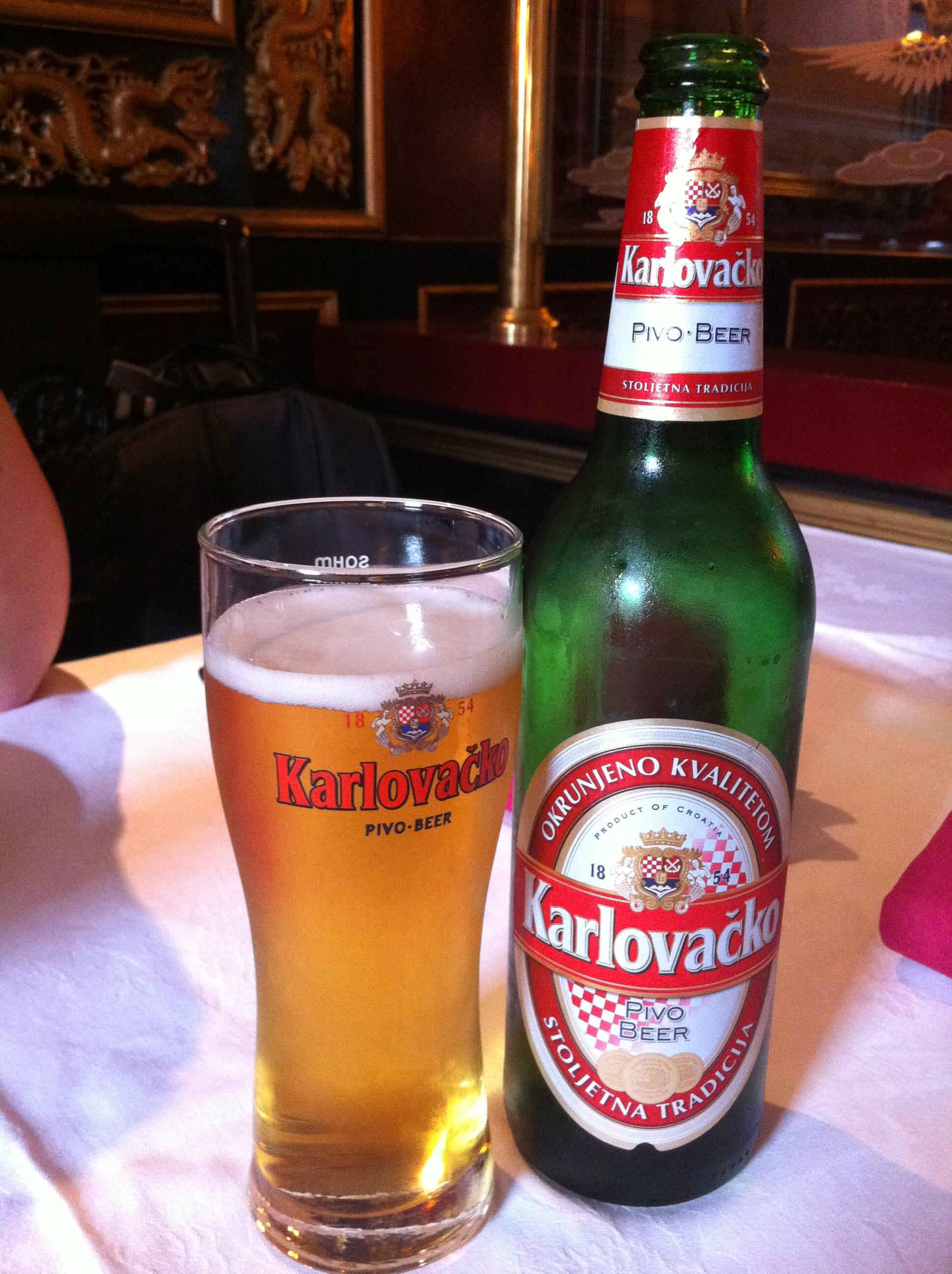 Karlovačko beer at hotel Dubrovnik in Zagreb.